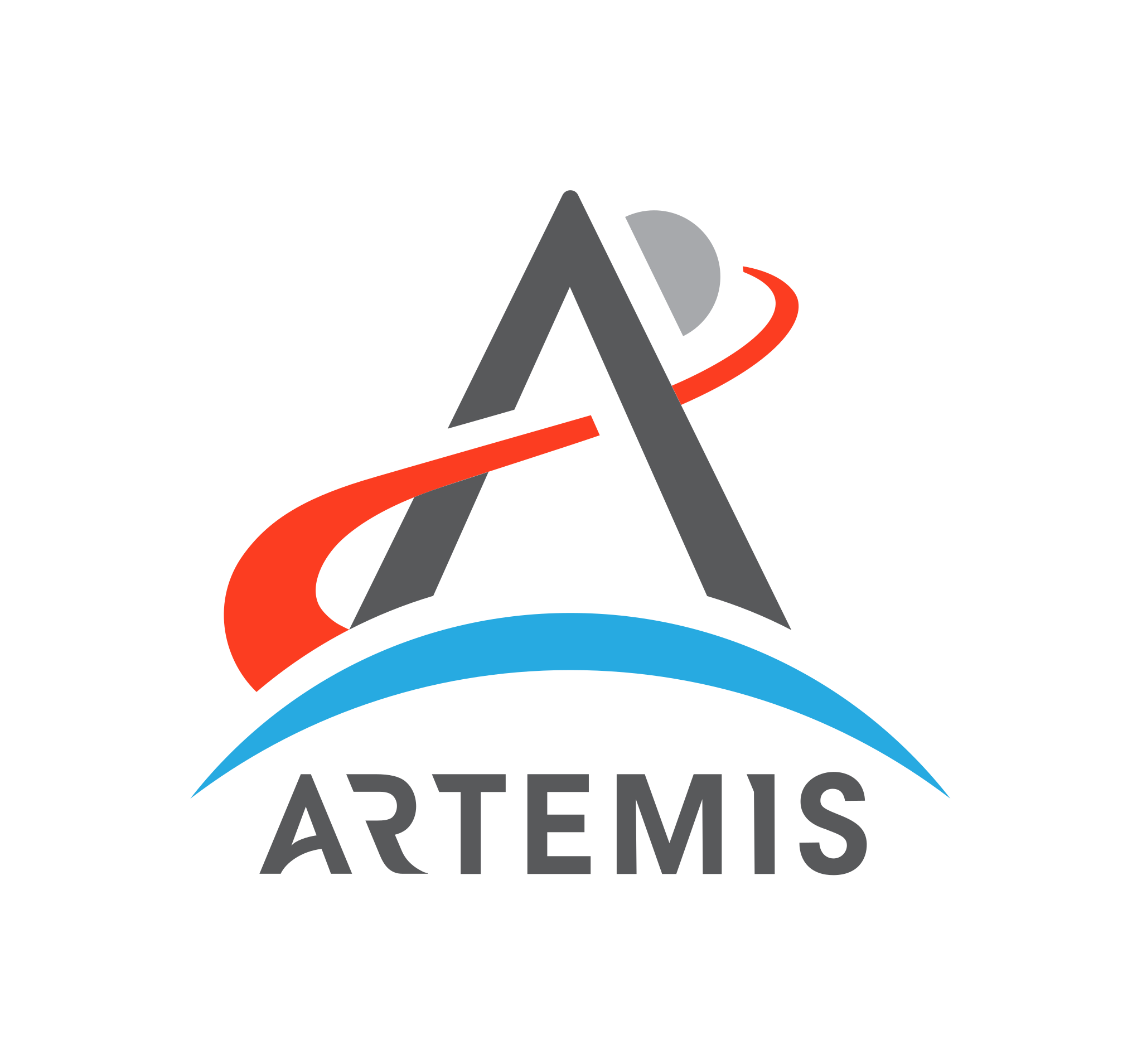 PNG logo of the Artemis program